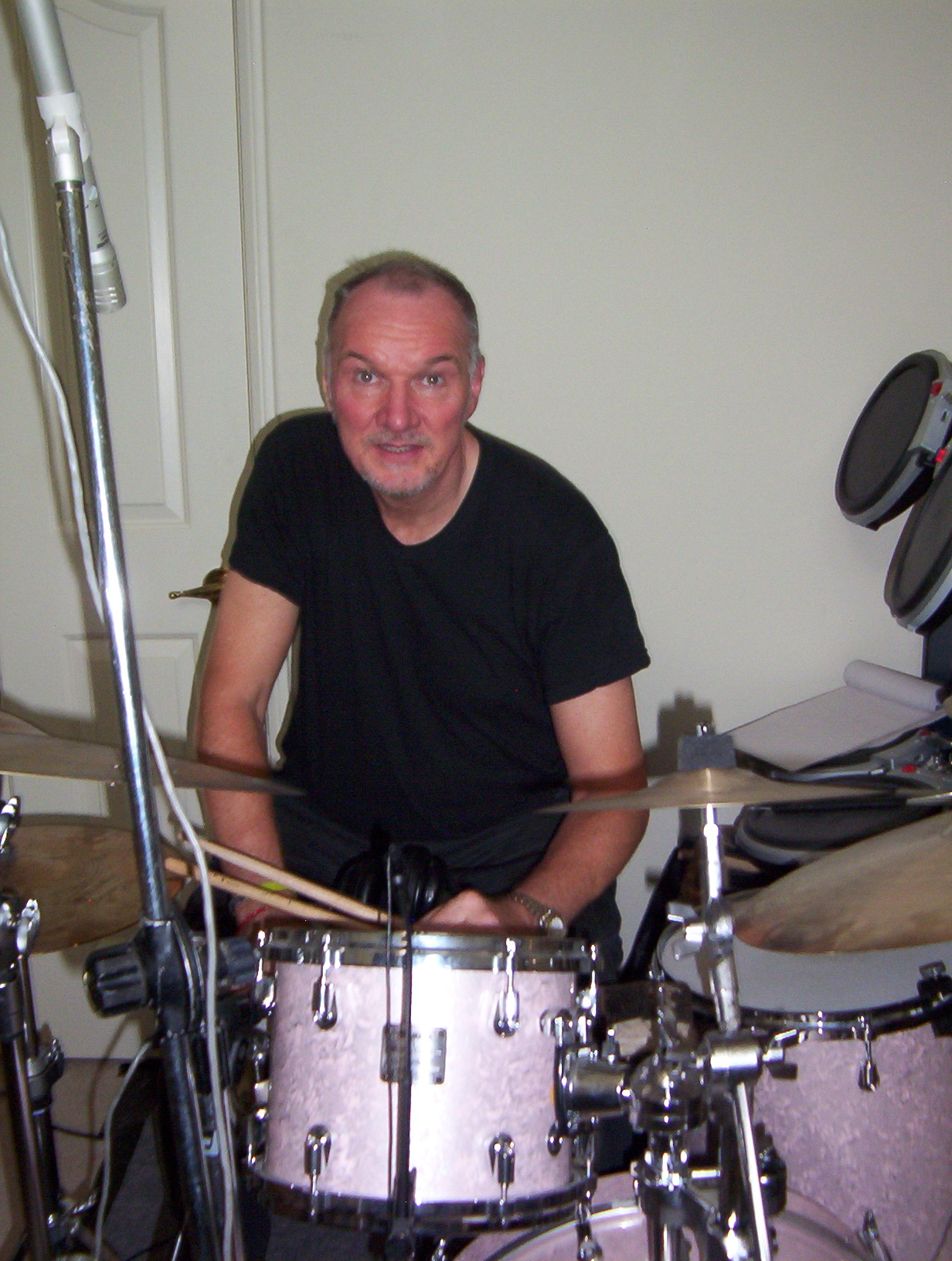 Ian Wallace, home studio, Sherman Oaks, California, 2005